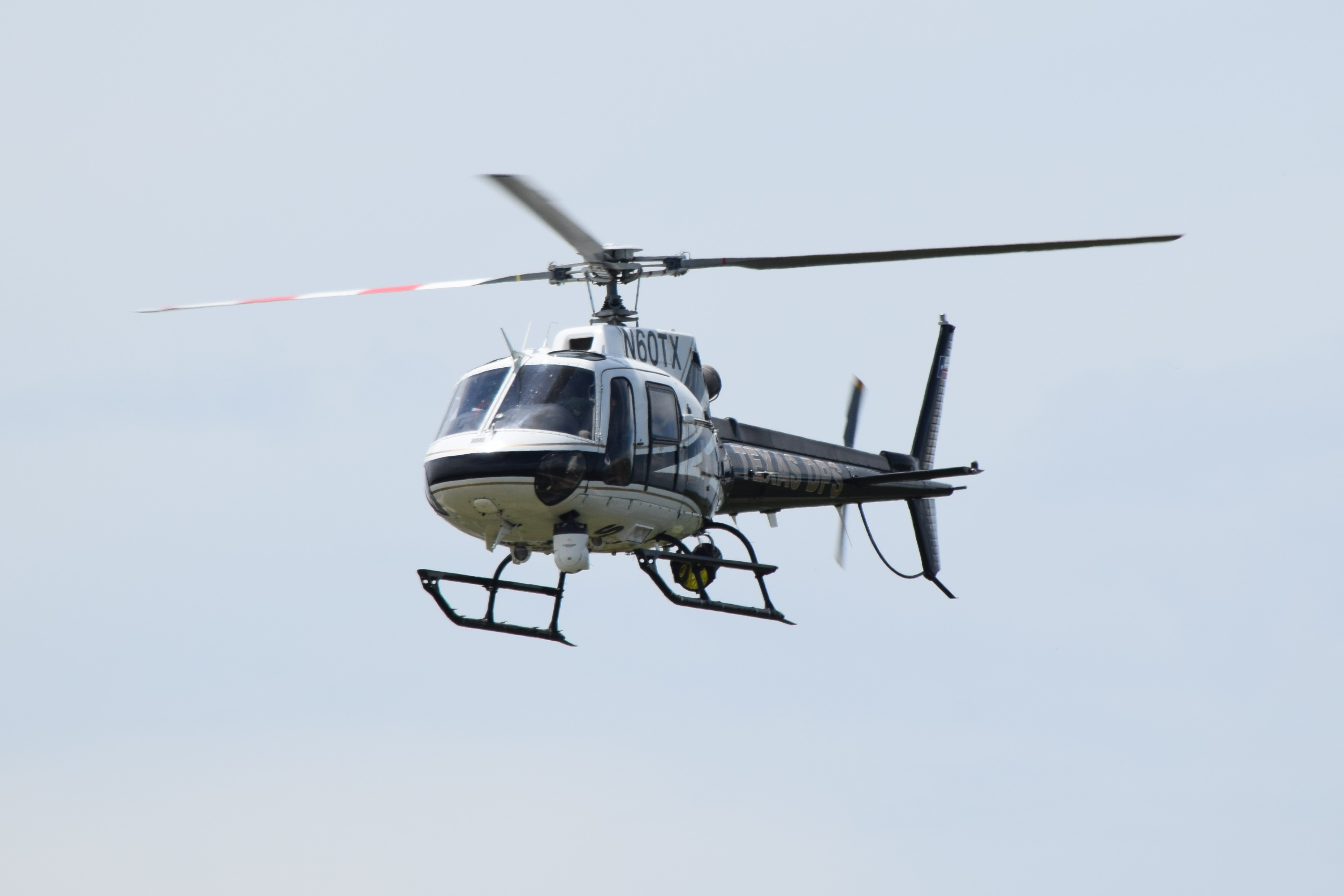 Texas DPS Helicopter, Eurocopter AS350B2